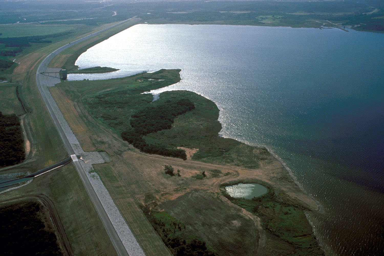 Aerial view of Joe Pool Lake and Dam in the Dallas-Fort Worth metropolitan area between Dallas and Fort Worth. Joe Pool Lake is mostly fed by Mountain Creek and Walnut Creek and drains north into Mountain Creek leading into Mountain Creek Lake. Joe Pool lake impounds water in two arms formed by Mountain Creek and Walnut Creek. The lake serves as a reservoir for the City of Midlothian. View is to the east. Coordinates: 32°38′38.14″N 96°59′32.84″W / 32.6439278°N 96.9924556°W